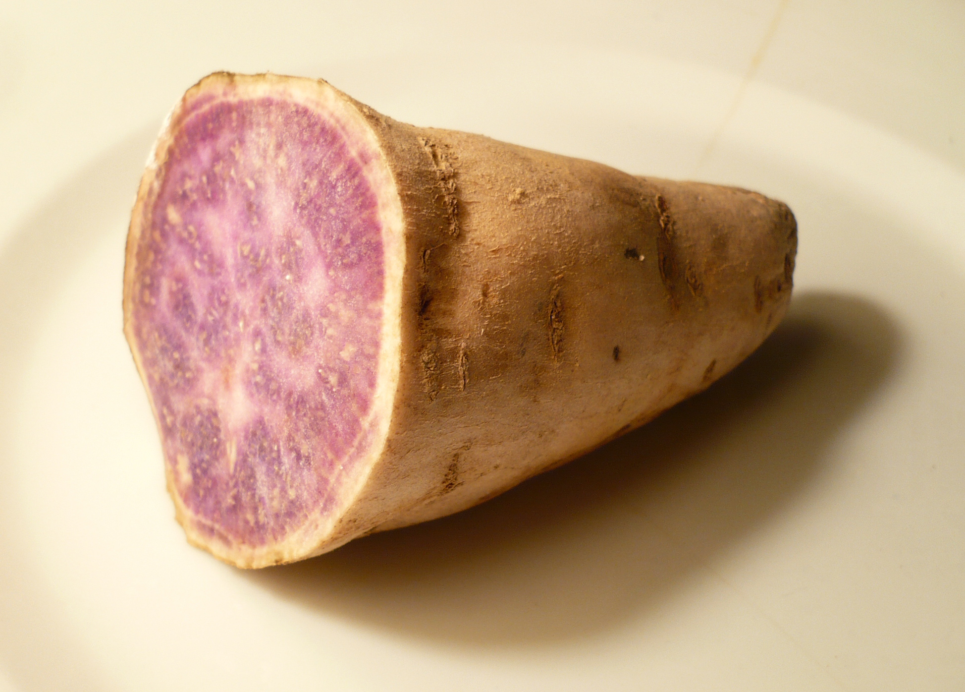 Sliced raw Hawaiian ube (purple yam). Photo taken in Kent, Ohio with a Panasonic Lumix digital camera (model DMC-LS75). Ube purchased from a Cleveland, Ohio Chinese grocery store.